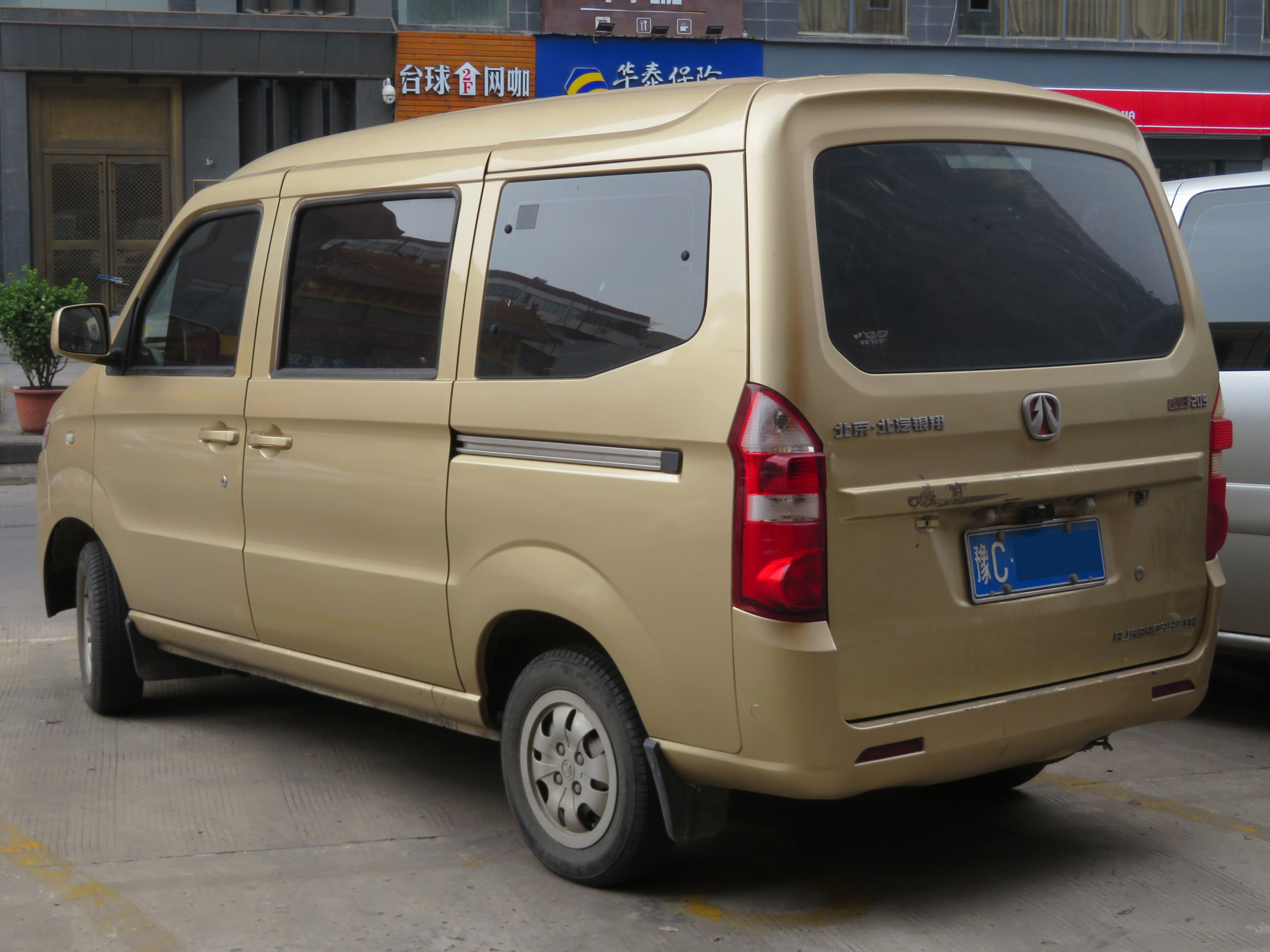 A Weiwang 205 photographed in Luoyang, Henan province, China